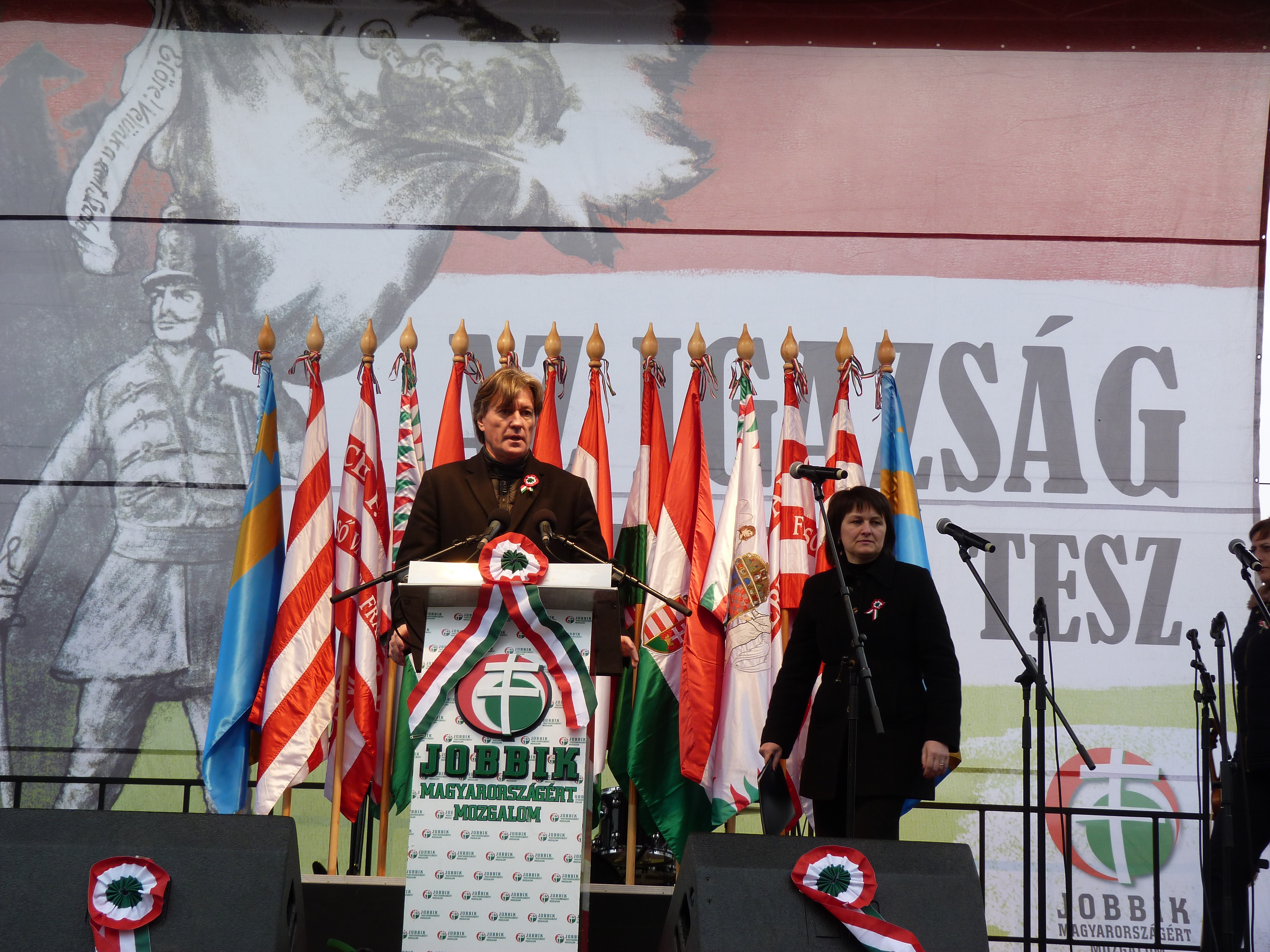 Live on the 15th of March, 2015. Budapest, Március 15-e tér. Jobbik Party. Pörzse Sándor moderator. ©© Derzsi Elekes Andor, Budapest, 2015, Published in the Metapolisz DVD line. You are authorised to use this photo under Creative Commons – even for commercial, for profit purposes. The photo must be attributed to Derzsi Elekes Andor. All of the photos and vids in the Metapolisz DVD line are under Creative Commons and can be used even for commercial – for profit – purposes. Recommended Citation Derzsi Elekes Andor: Metapolisz DVD line